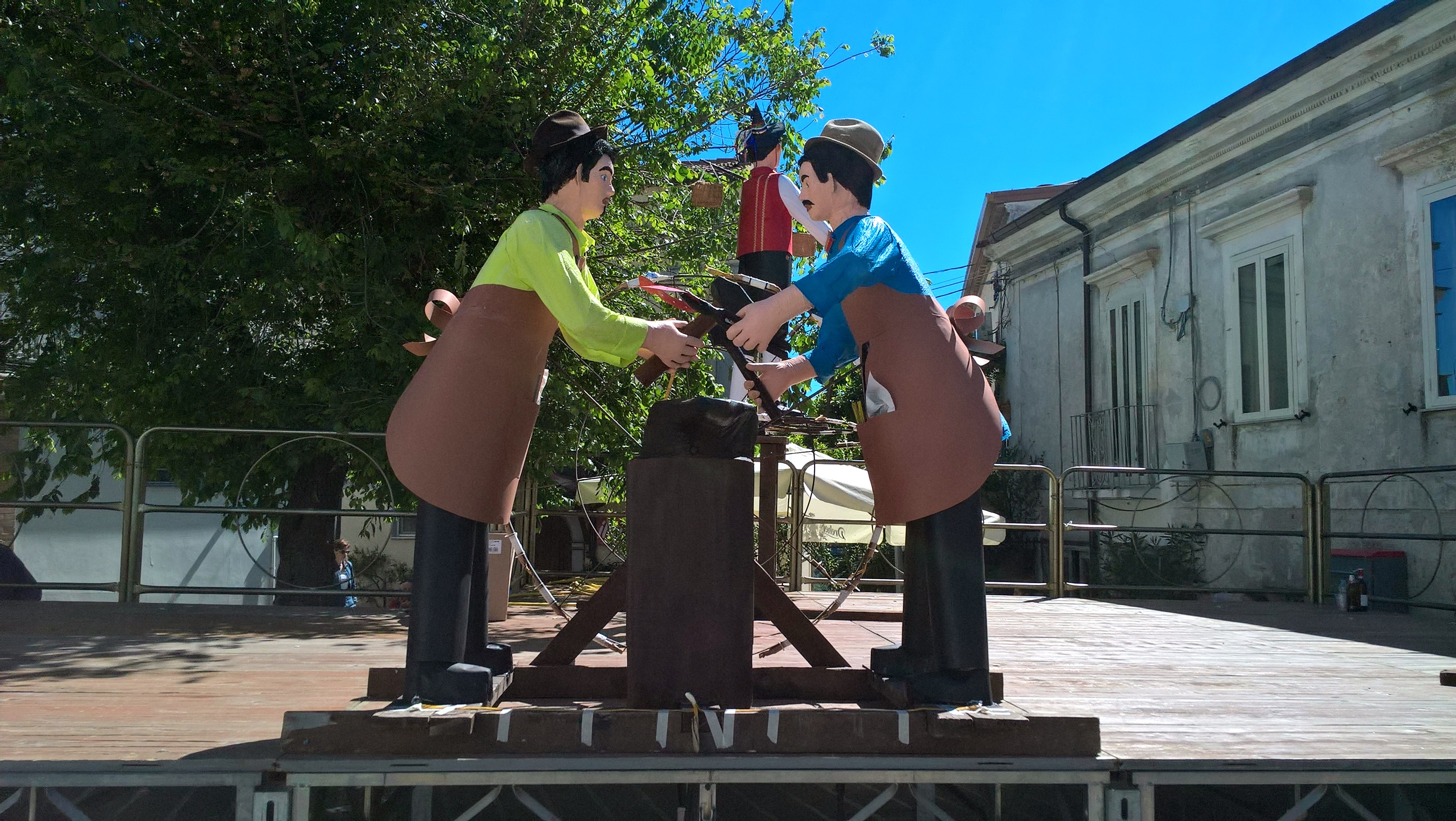 Nusazit (human-sized pappmaschee figure; craftmen)